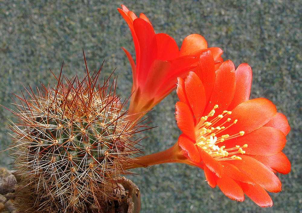 Rebutia deminuta (Rebutia kupperiana var kupperiana) - cultivated plant (seed marked WR324) from own collection.